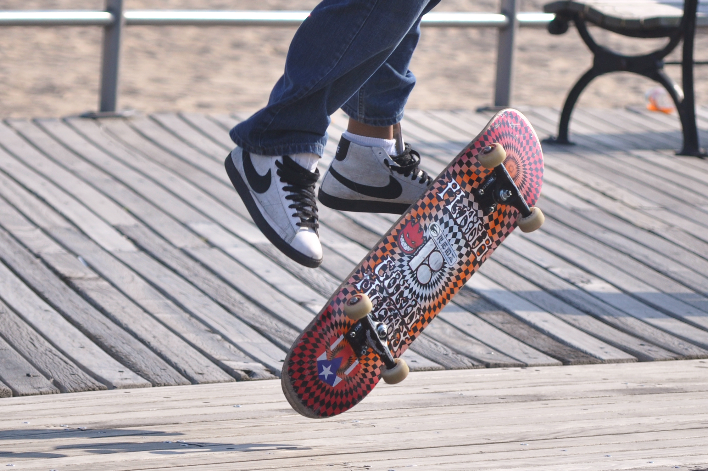 Coney Island, NYC